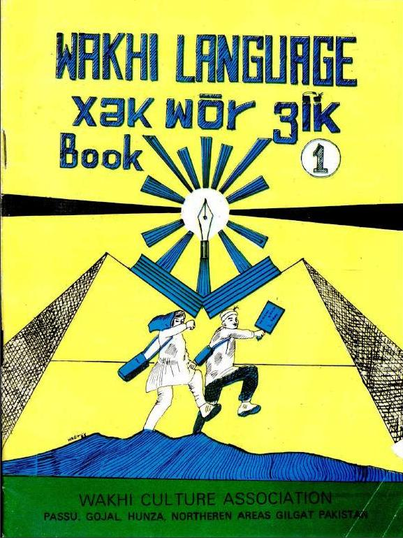 wakhi language first book published by Haqiqat Ali